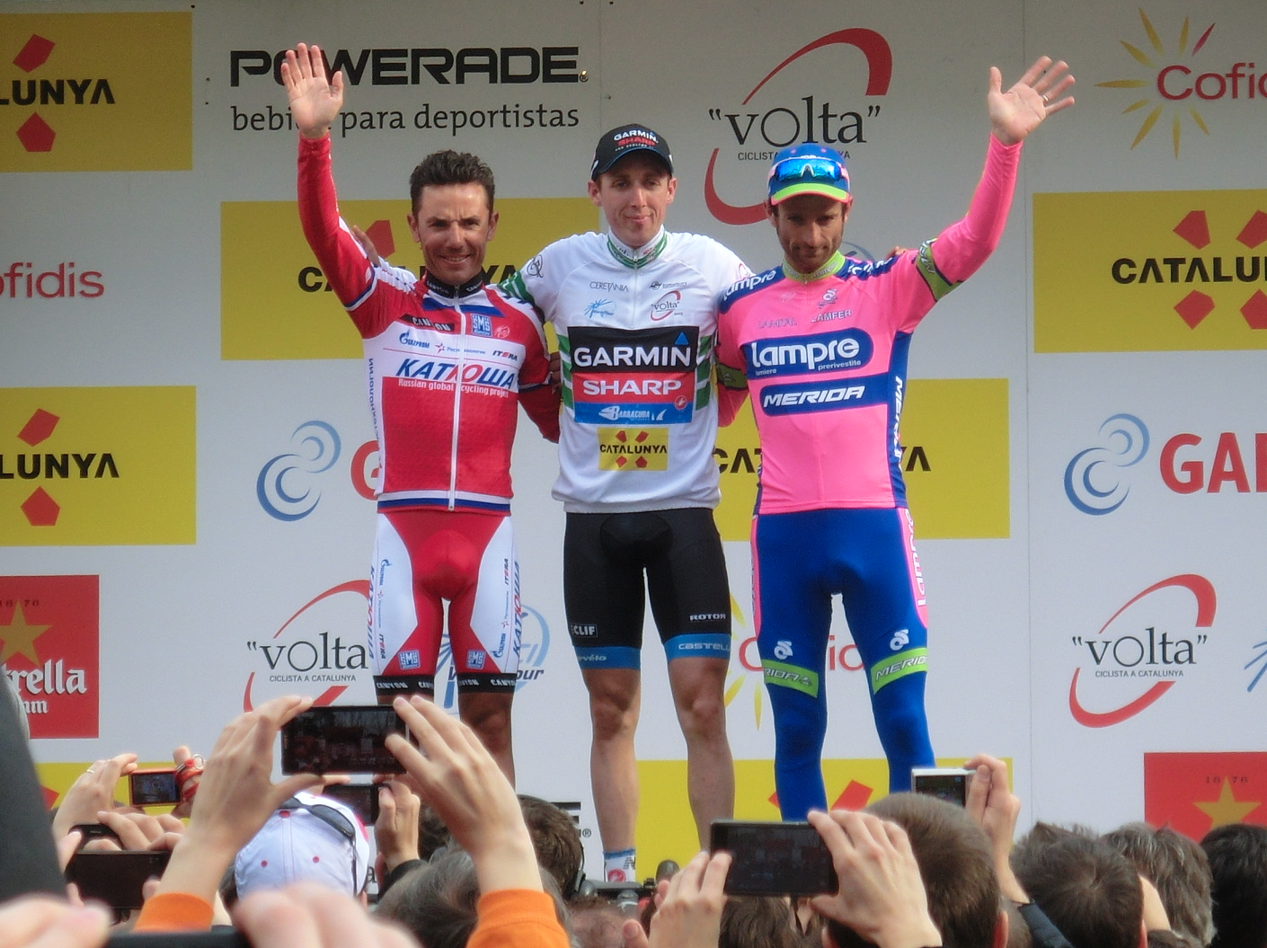 Daniel Martin, Joaquim Rodríguez ("Purito") and Michele Scarponi in the podium of 2013 Volta Catalunya.